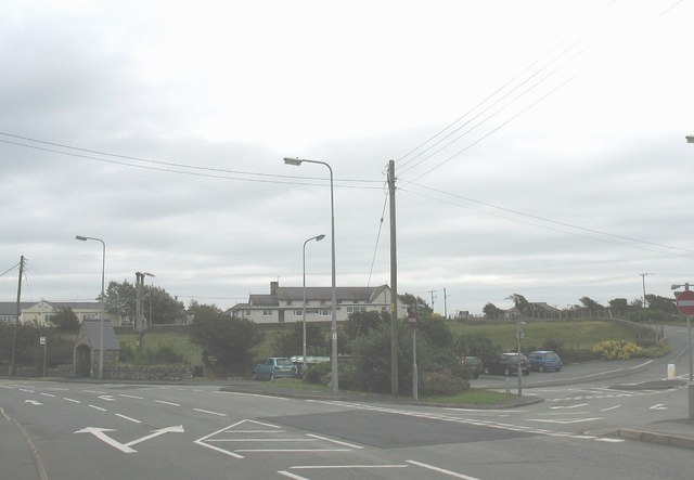 Caergeiliog Foundation School This was the first Welsh Primary School to be granted Grant Maintained status. This was in 1992.